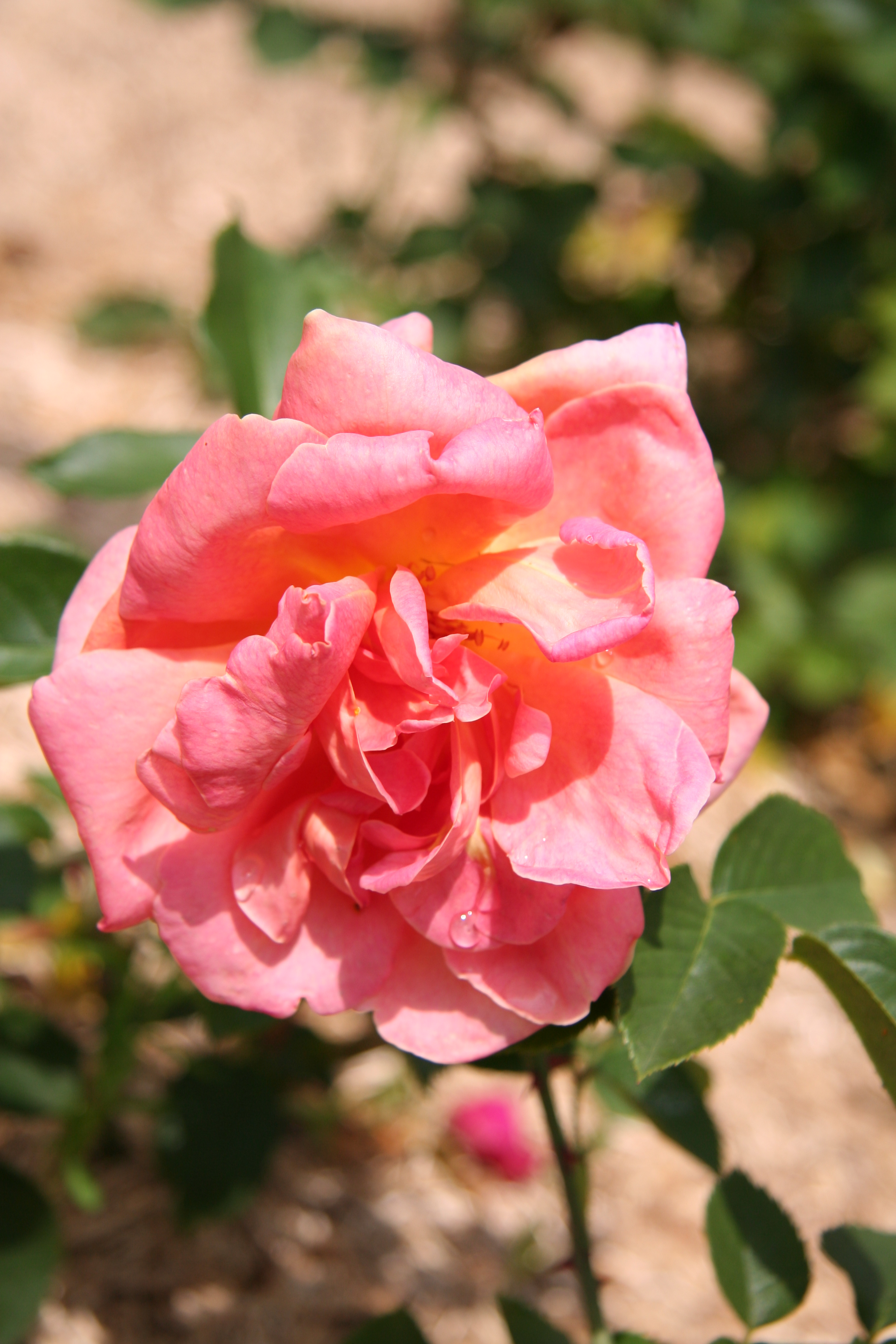 Luis de Brinas rose - Bagatelle Rose Garden (Paris, France).